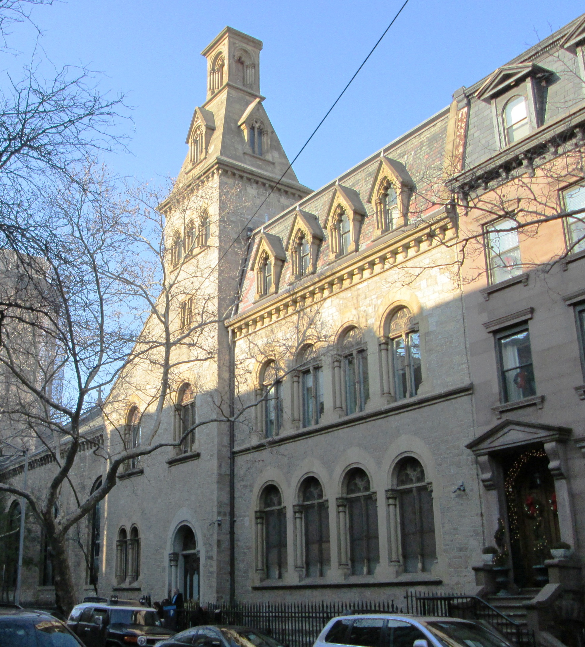 Our Lady of Lebanon Roman Catholic Cathedral, at 113 Remsen Street on the corner of Henry Street in the Brooklyn Heights neighborhood of Brooklyn, New York City. was built in 1844-46 as the Congregational Church of the Pilgrims, and was designed by Richard Upjohn in the Romanesque Revival style. A rectory, designed by Leopold Eidlitz, was added in 1869. The Church of the Pilgrims merged with the Plymouth Church in 1934 to form Plymouth Church of the Pilgrims (now reverted to being simply Plymouth Church), and the building was taken over by the Lebanese Catholic (Maronite Rite) parish. The Church of the Pilgrims took with them the Tiffany windows and the doors of the church. The doors were replaced with bronze doors salvaged from the SS Normandie, which caught fire and sank at dock in the Hudson River in 1942 when it was being outfitted as a troop ship. (Sources: AIA Guide to NYC (5th ed.) and Inside the Apple (2009))